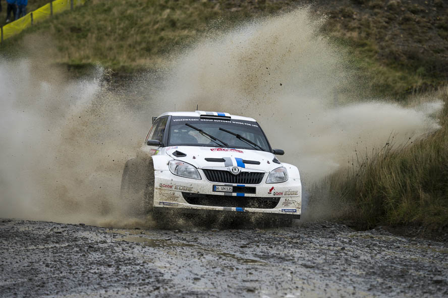 Wales Rally Great Britain 2012 Frederic Miclotte,Hafren Sweet Lamb 1,Kevin Abbring,Motorsport,Rally,Rallye,SS2,Skoda Fabia S2000,Volkswagen Motorsport,WP2,WRC,Wales Rally GB